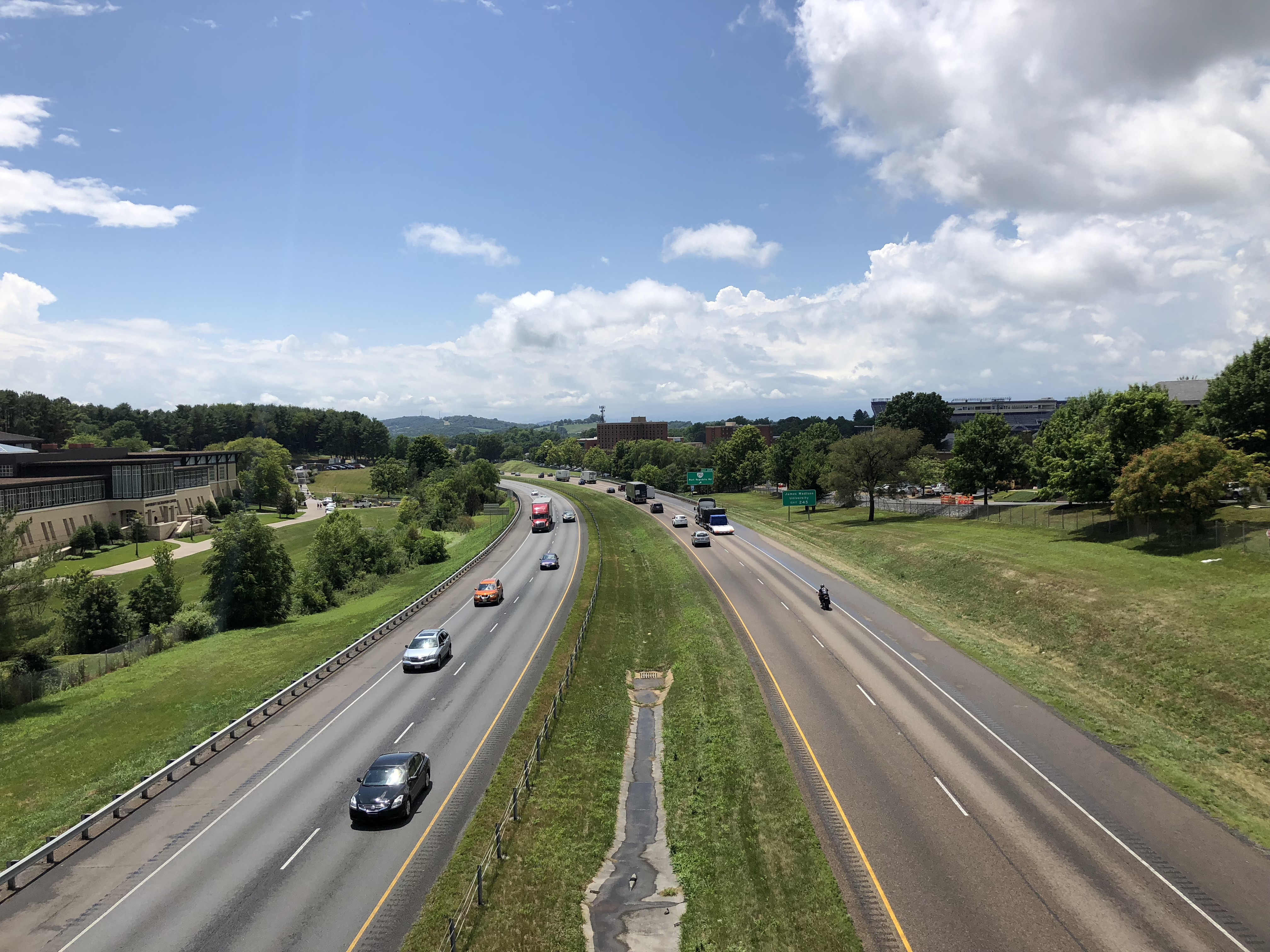 View south along Interstate 81 from the overpass for Carrier Drive in Harrisonburg, Virginia